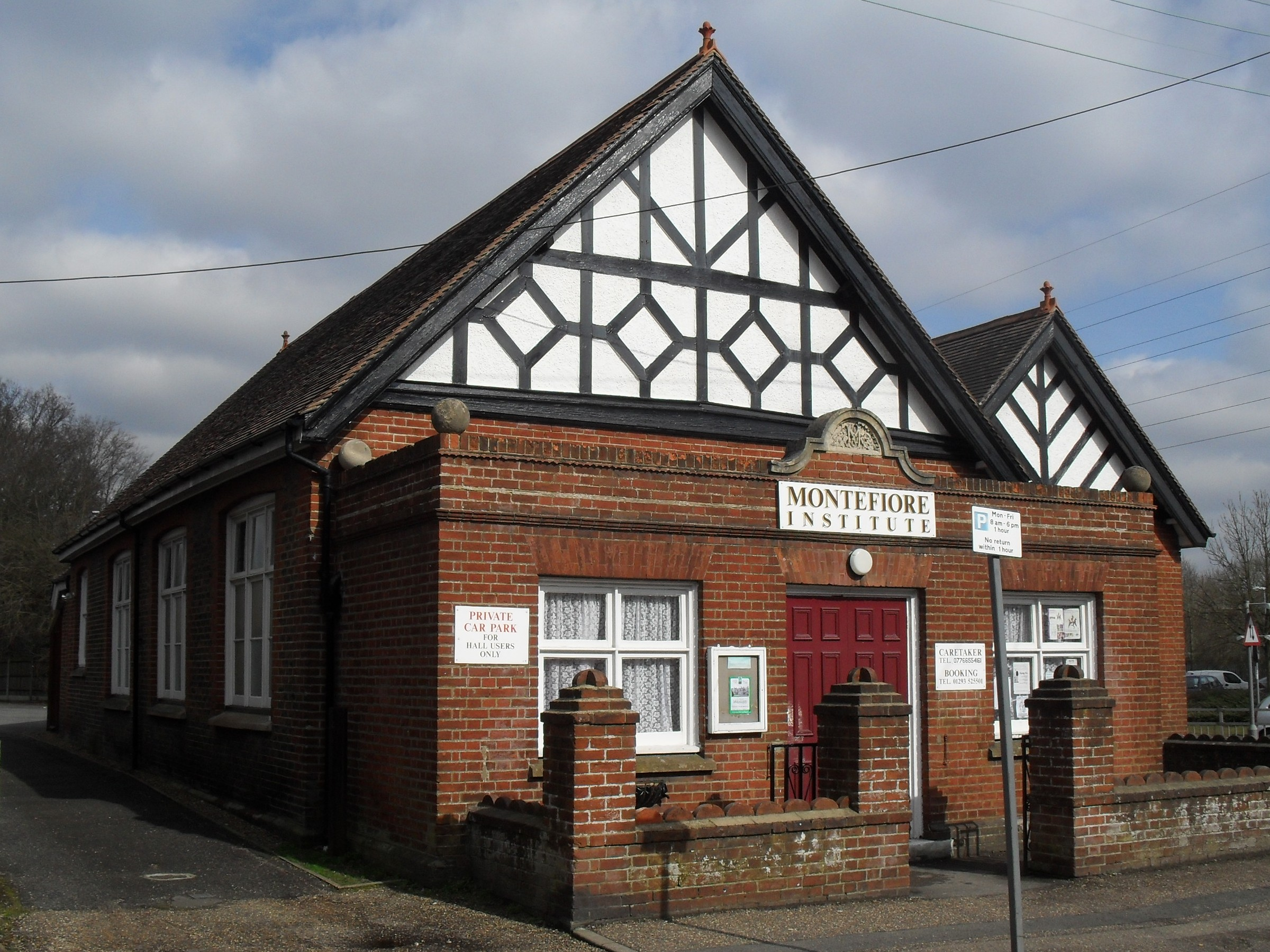 The Montefiore Institute Hall, Three Bridges, Crawley, West Sussex, England. The public inquiry into whether Crawley should be designated a New Town (under the New Towns Act 1946) was held here on 4–6 November 1946. The decision to grant New Town status was taken in January 1947.